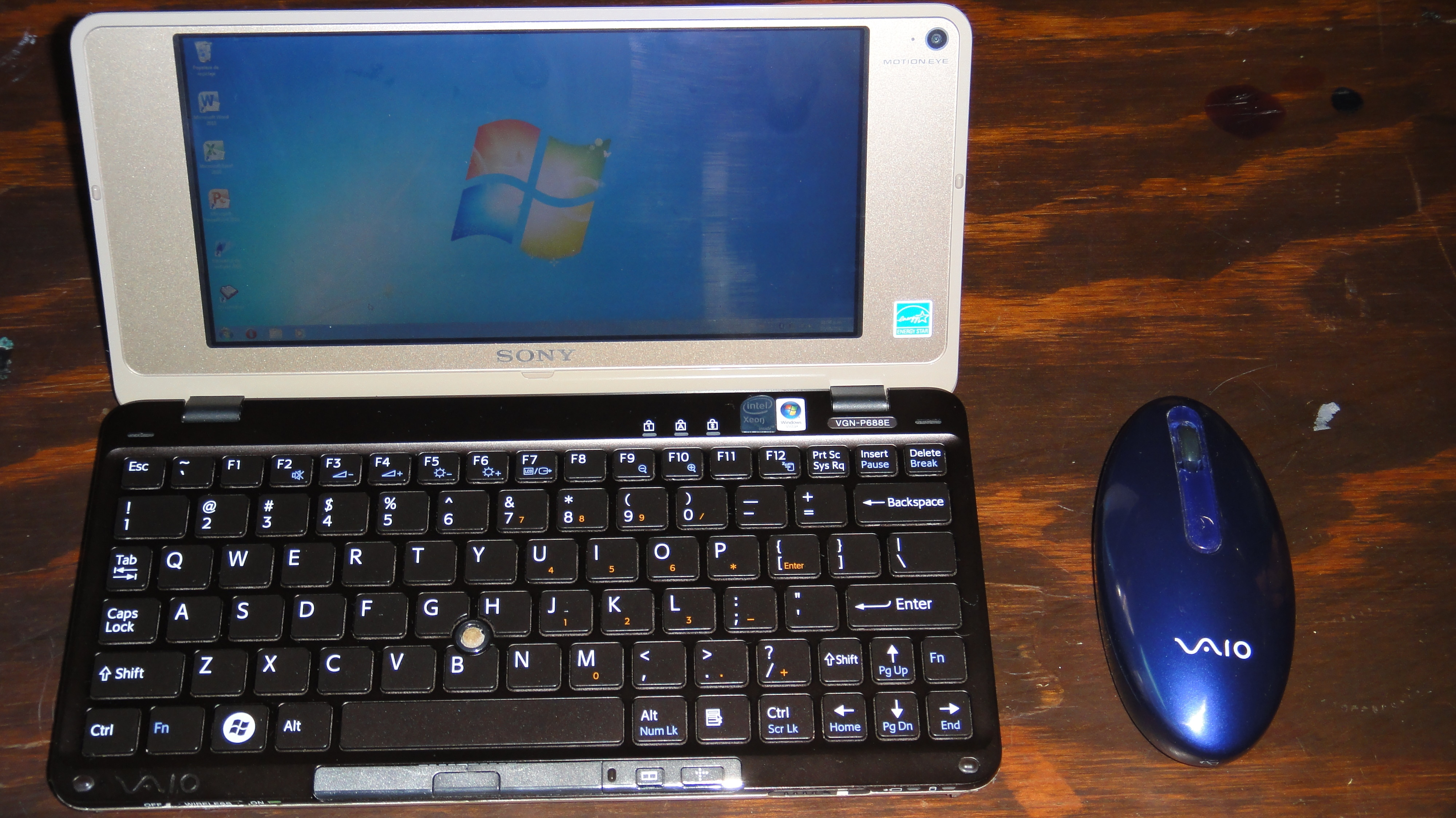 Vaio P series